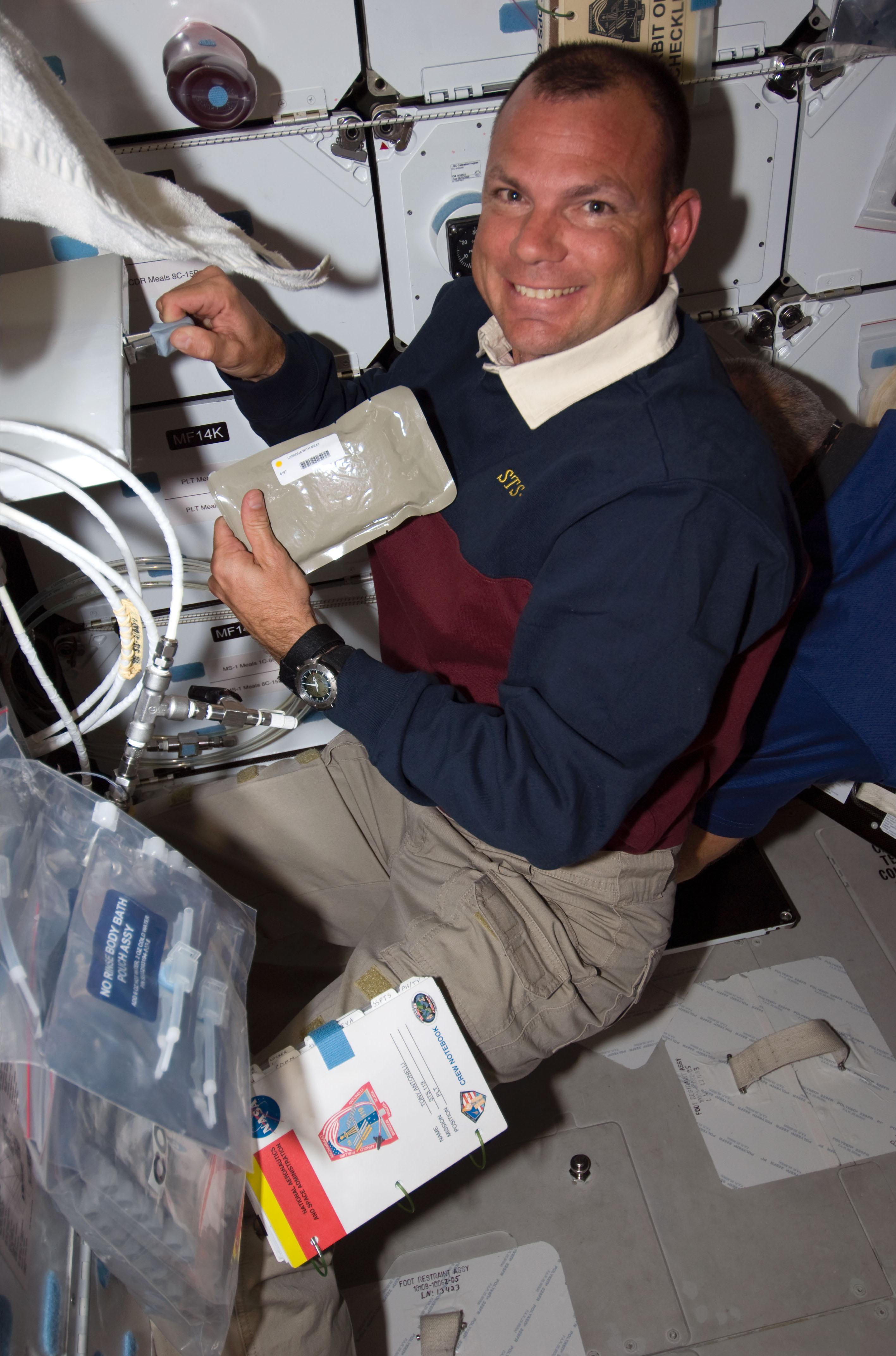 Astronaut Tony Antonelli, STS-119 pilot, prepares to eat a meal near the galley on the middeck of Space Shuttle Discovery while docked with the International Space Station.